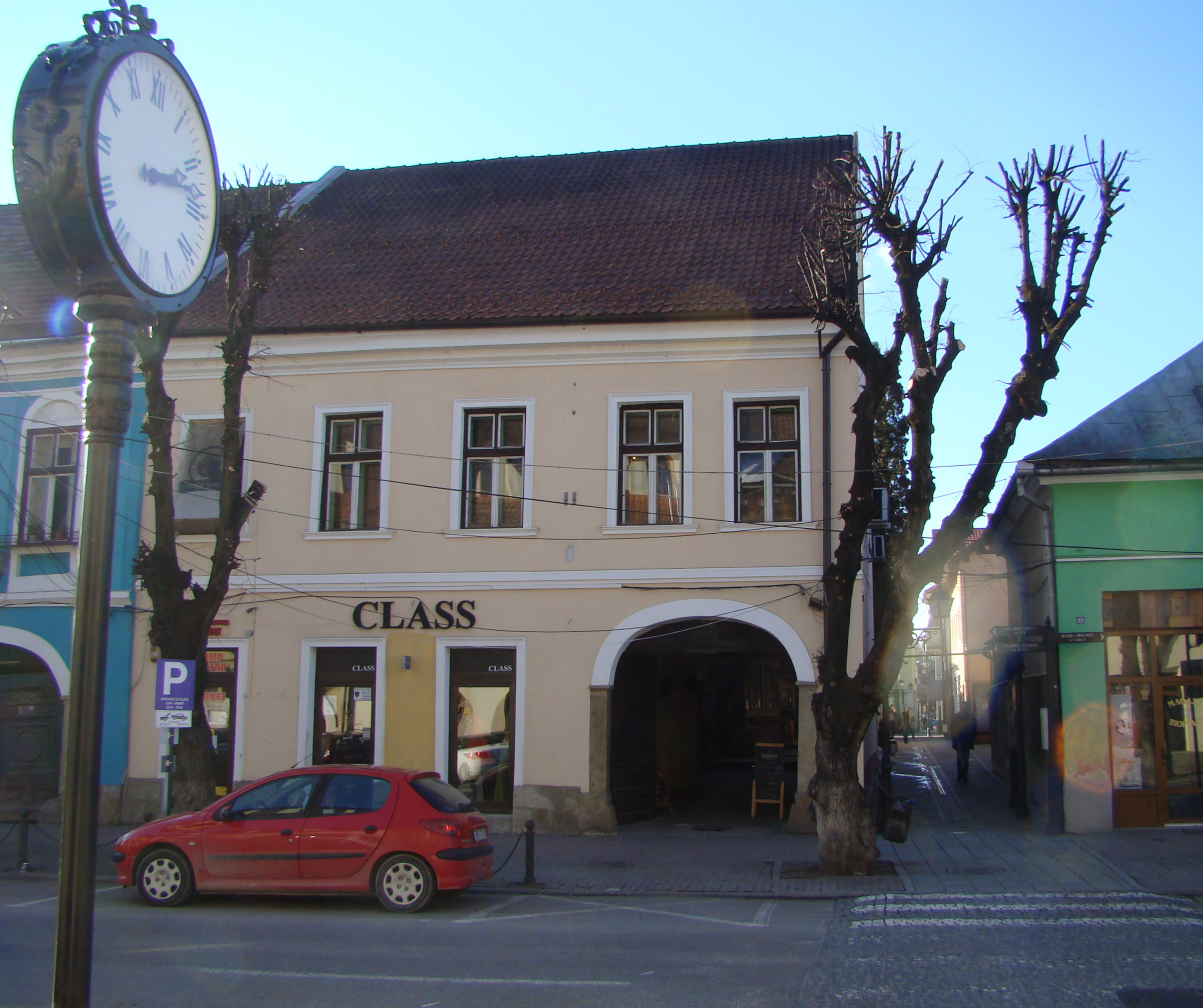 House, historic monument, in Bistriţa, Dornei street, number 25